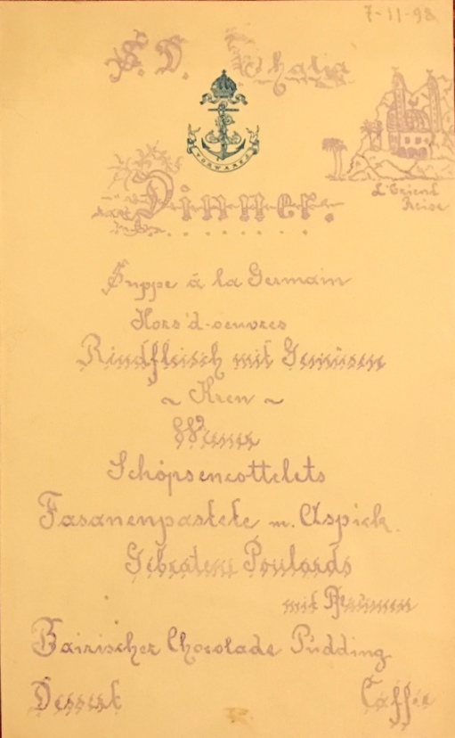 Picture of a menu abord of SS Thalia (Austrian Lloyd), voyage to Jerusalem to the inauguration of the Savior Church (return home)